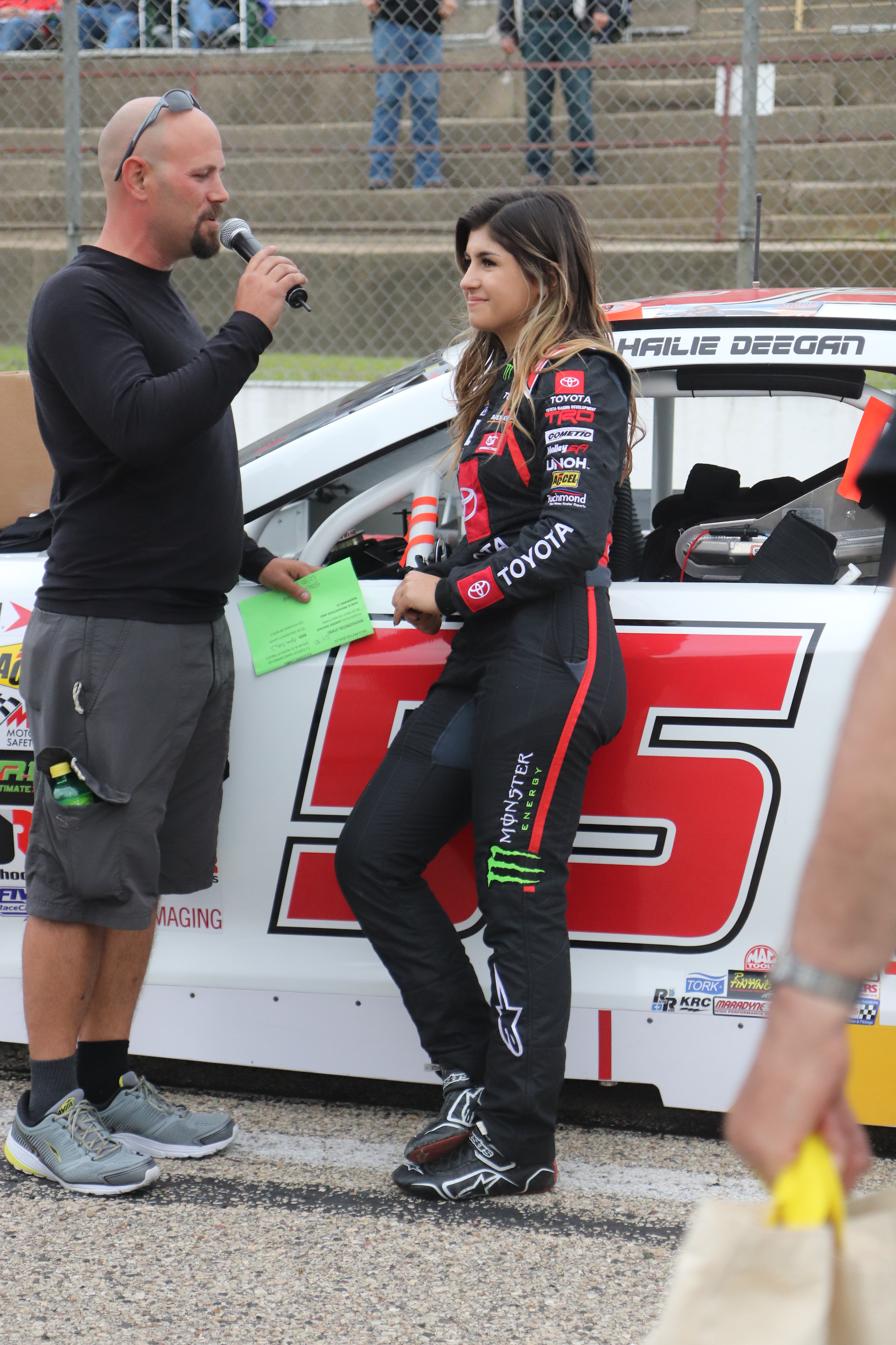 track announcer interviewing ARCA driver Hailie Deegan at Madison International Speedway